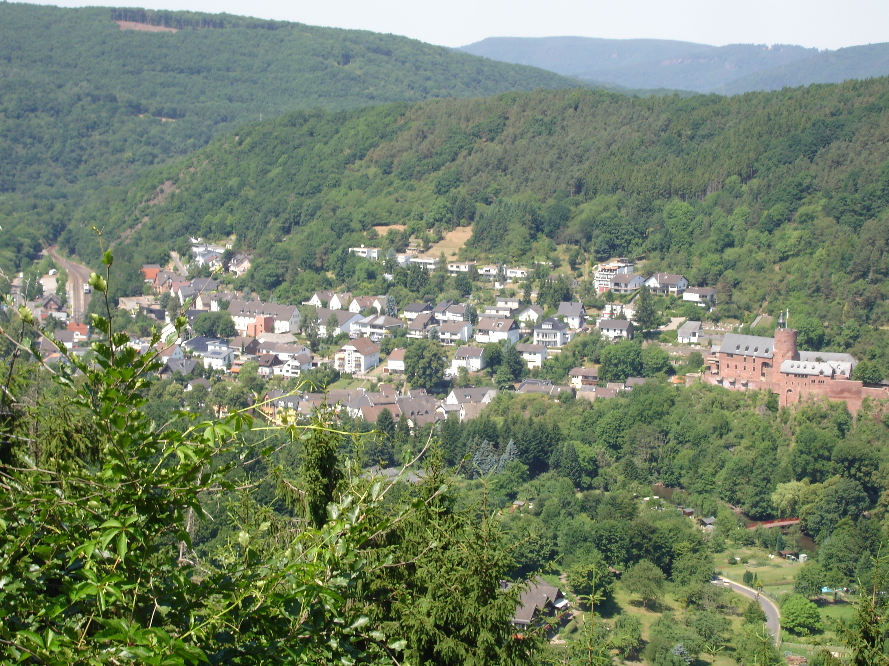 View over Heimbach (Eifel)